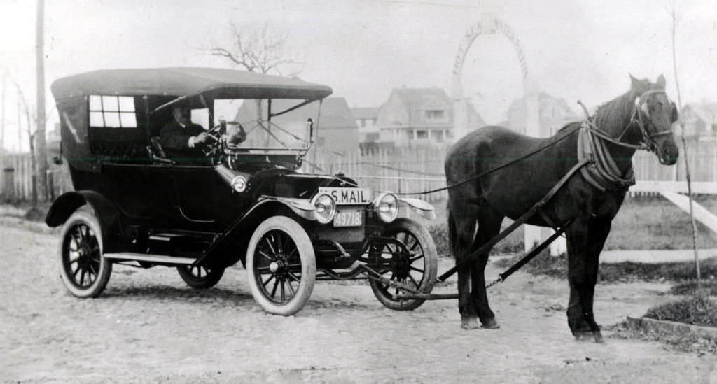 Clinton Folger's "Horsemobile" delivering mail, on South Beach Street, at Hayden's Bath House entrance. For nearly twenty years, from 1900 to 1918, Nantucket was the only place in the nation that successfully fought encroachment of the automobile within its limits. Opposing politicians on the mainland and large property owners, mostly non-residents, Nantucketers kept the island free of the "gasoline buggy" until the final vote of the town on May 15, 1918. By the narrow margin of forty - 326 to 286 - the automobile was allowed entry. Clinton Folger was the mail carrier for Nantucket. Because cars were forbidden by the town, he towed his car to the state highway for driving to Siasconset. Image number: 14797